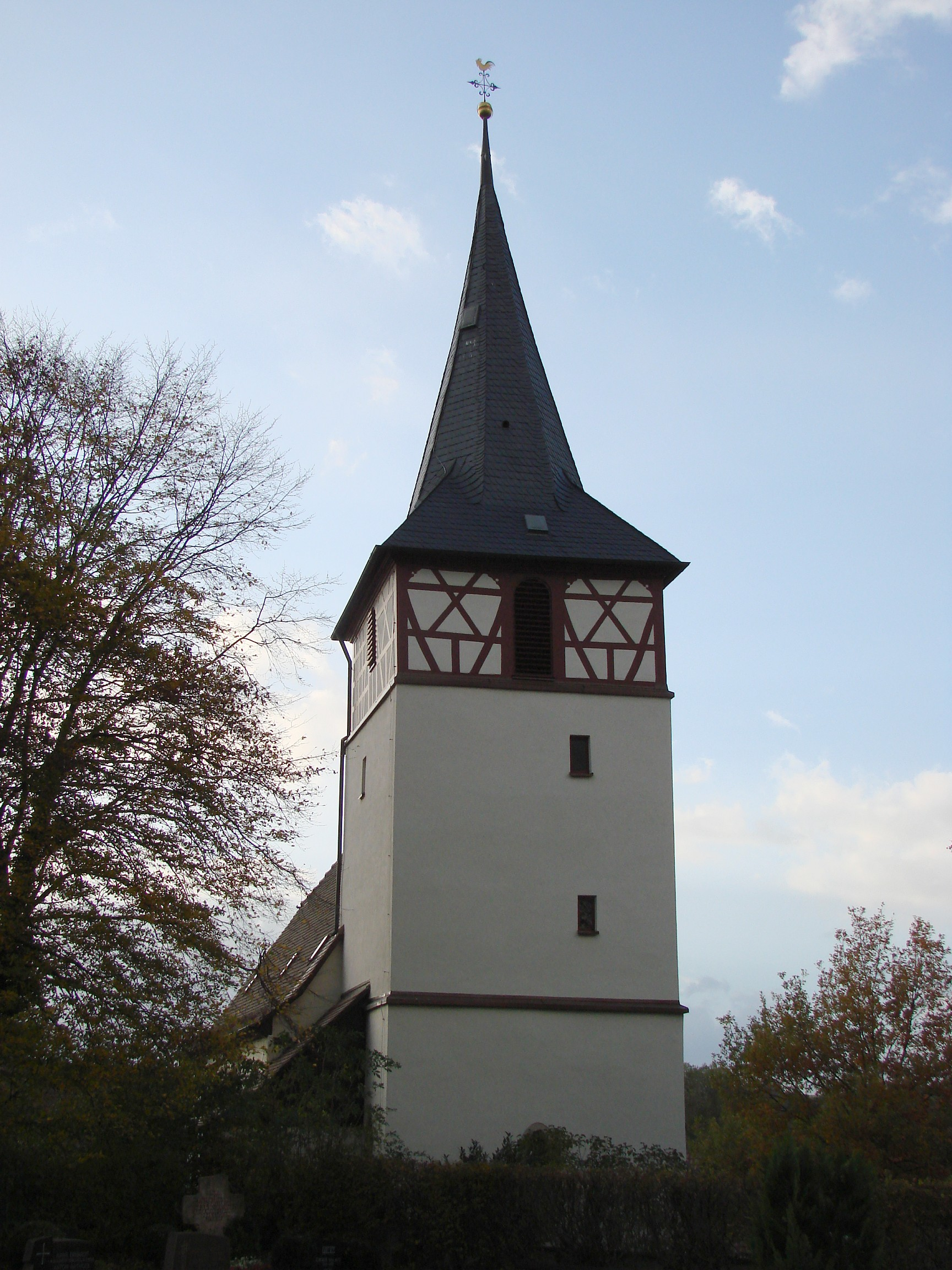 Oberstenfeld, Germany: Cyriakuskirche (St. Cyriacus' church)